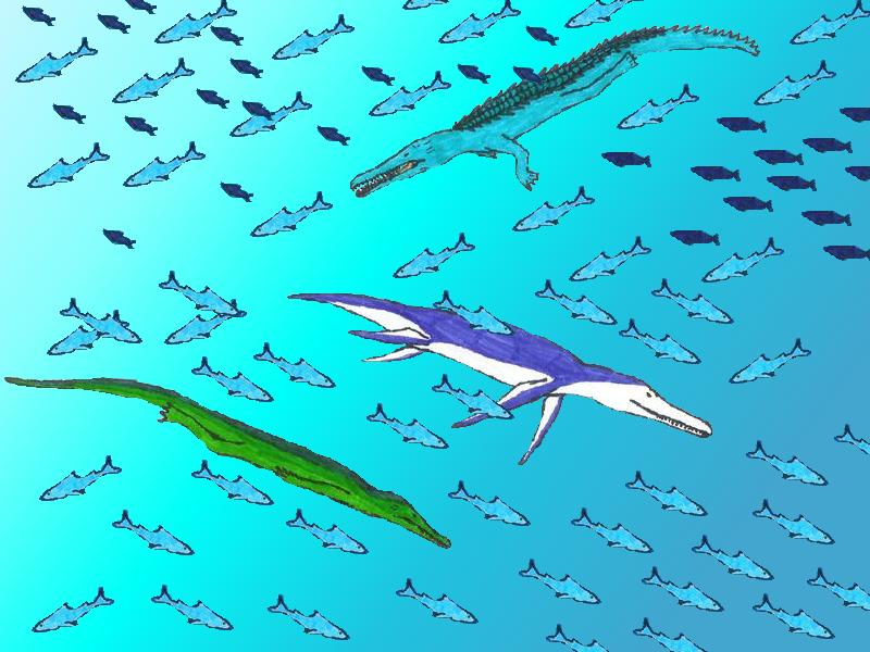 The crocodile Eothoracosaurus, the plesiosaur Dolichorhynchops and the choristodire Champsosaurus are hunting on fish.